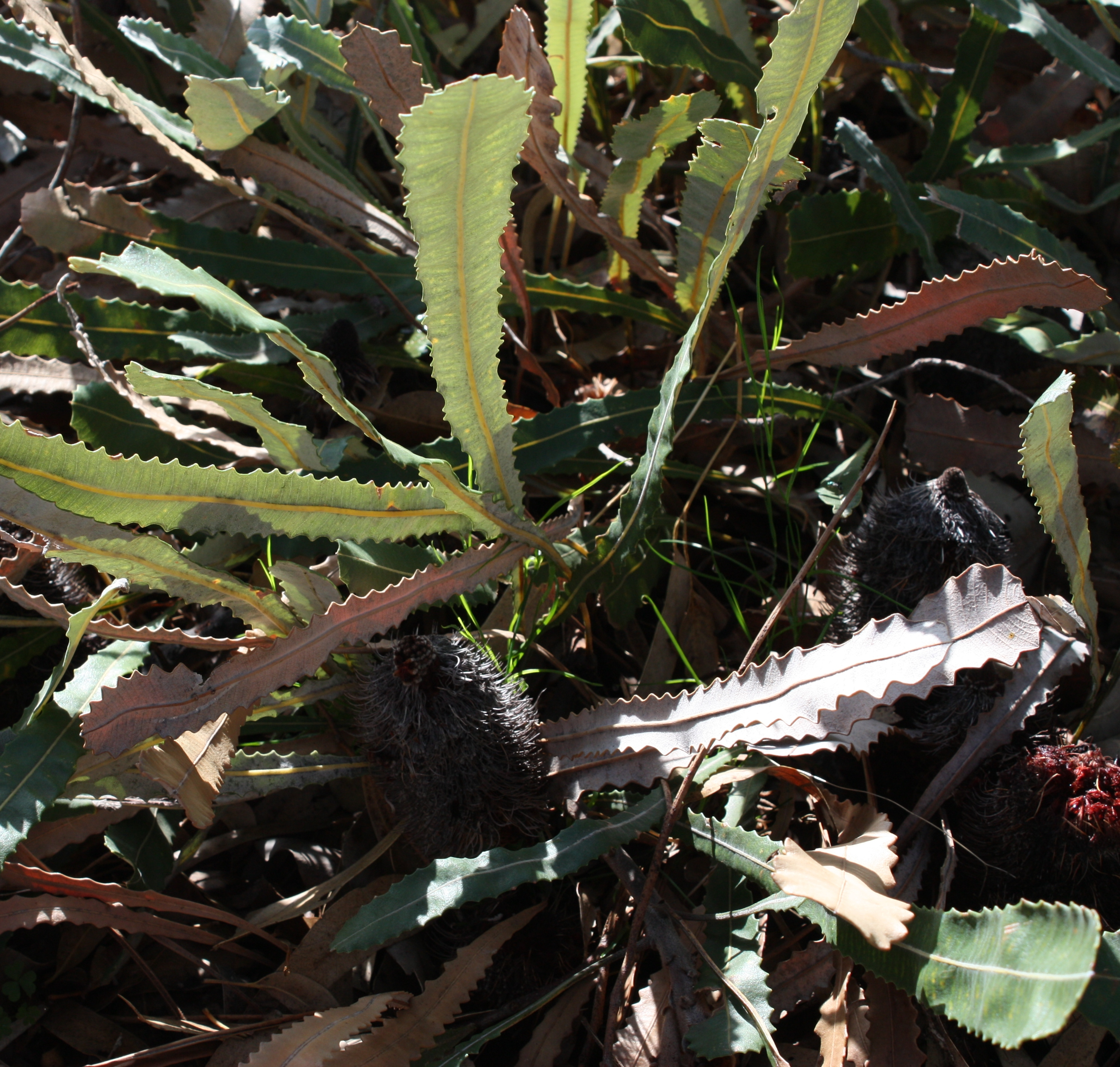 Foliage of Banksia petiolaris, in cultivation, Kings Park, Perth, Western Australia